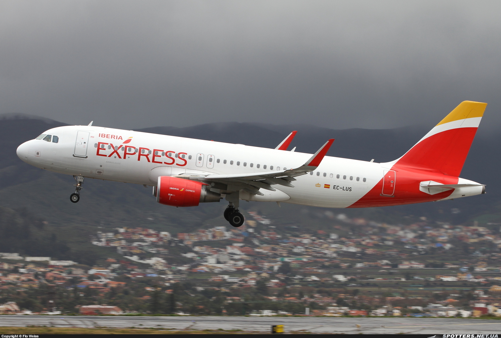 Iberia Express A320-216 EC-LUS - Tenerife North